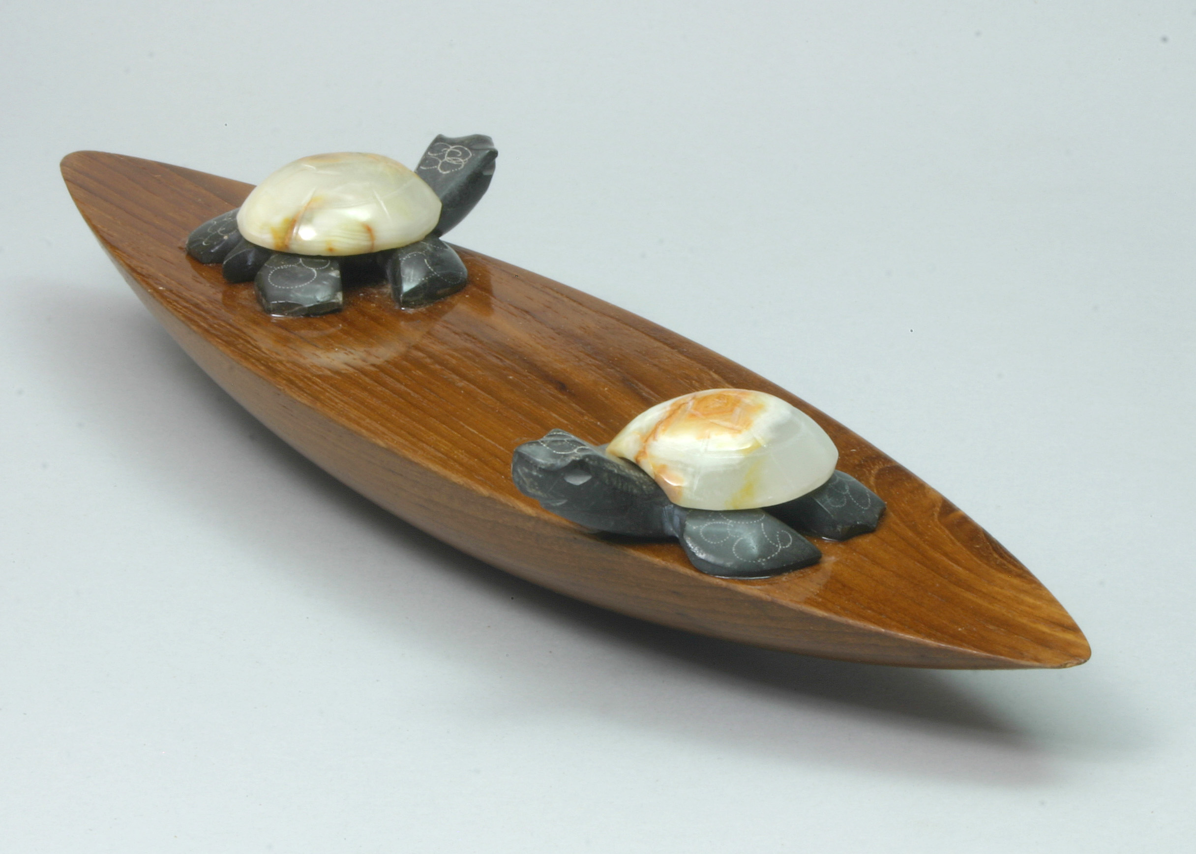 Celt are asymmetrical tops which have a preferred direction of spin. If spun in the opposite direction they become unstable and reverse their spin to the preferred direction.